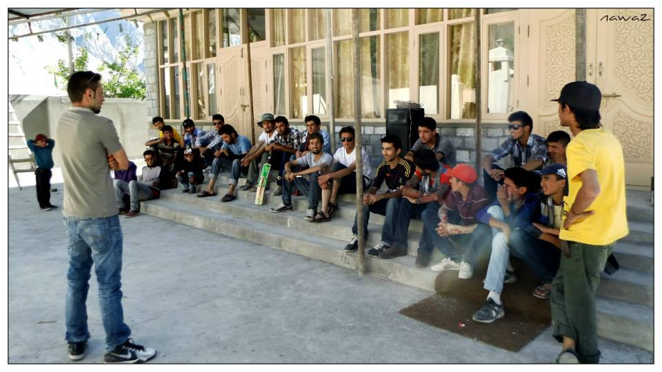 Youth of Jamalabad